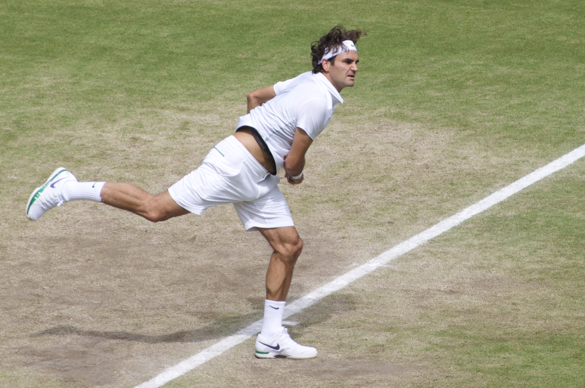 Roger Federer serve in Wimbledon 2012.